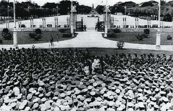 Mano addressing the crowd at Ananta Samakhom Throne Hall